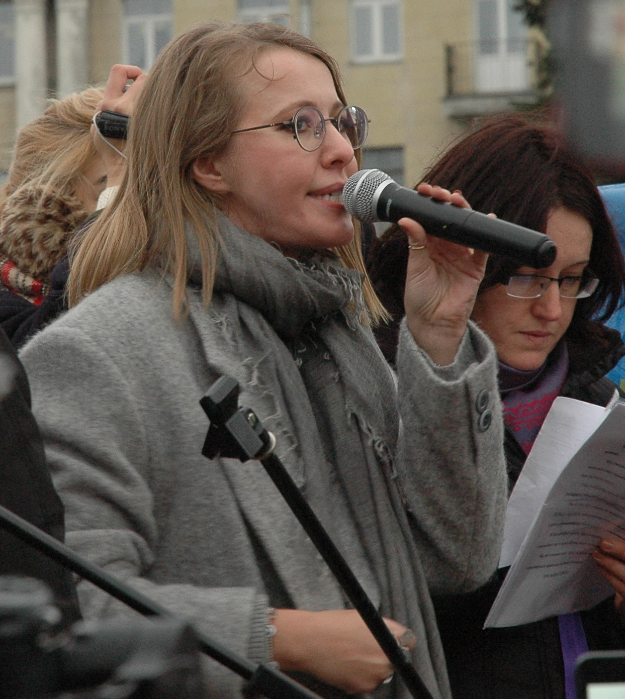 Xenia Sobchak speaking. 2017-11-11 Meeting to support education and science (Lenin square, St. Petersburg, Russia).